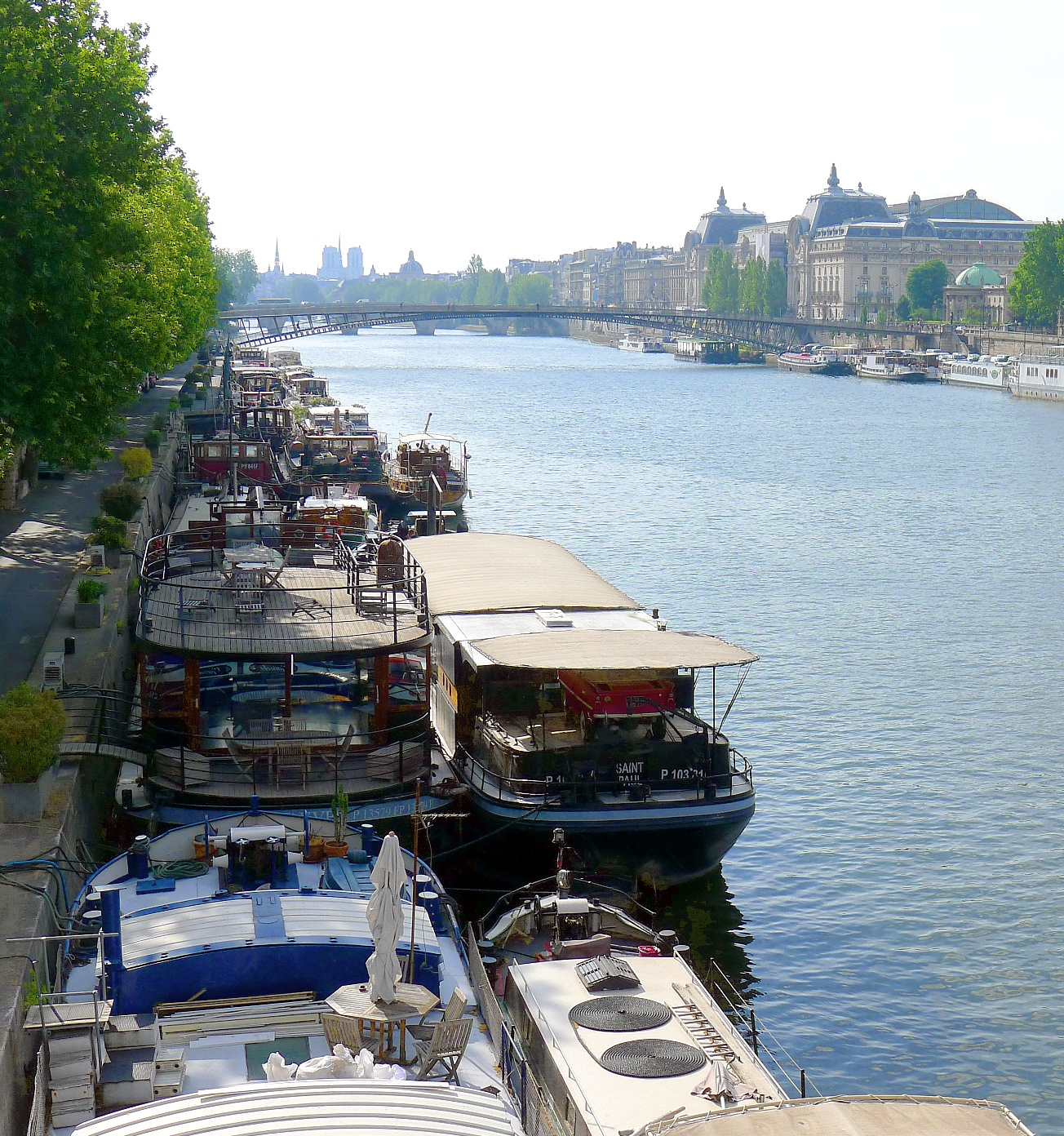 Port des Tuileries - Paris